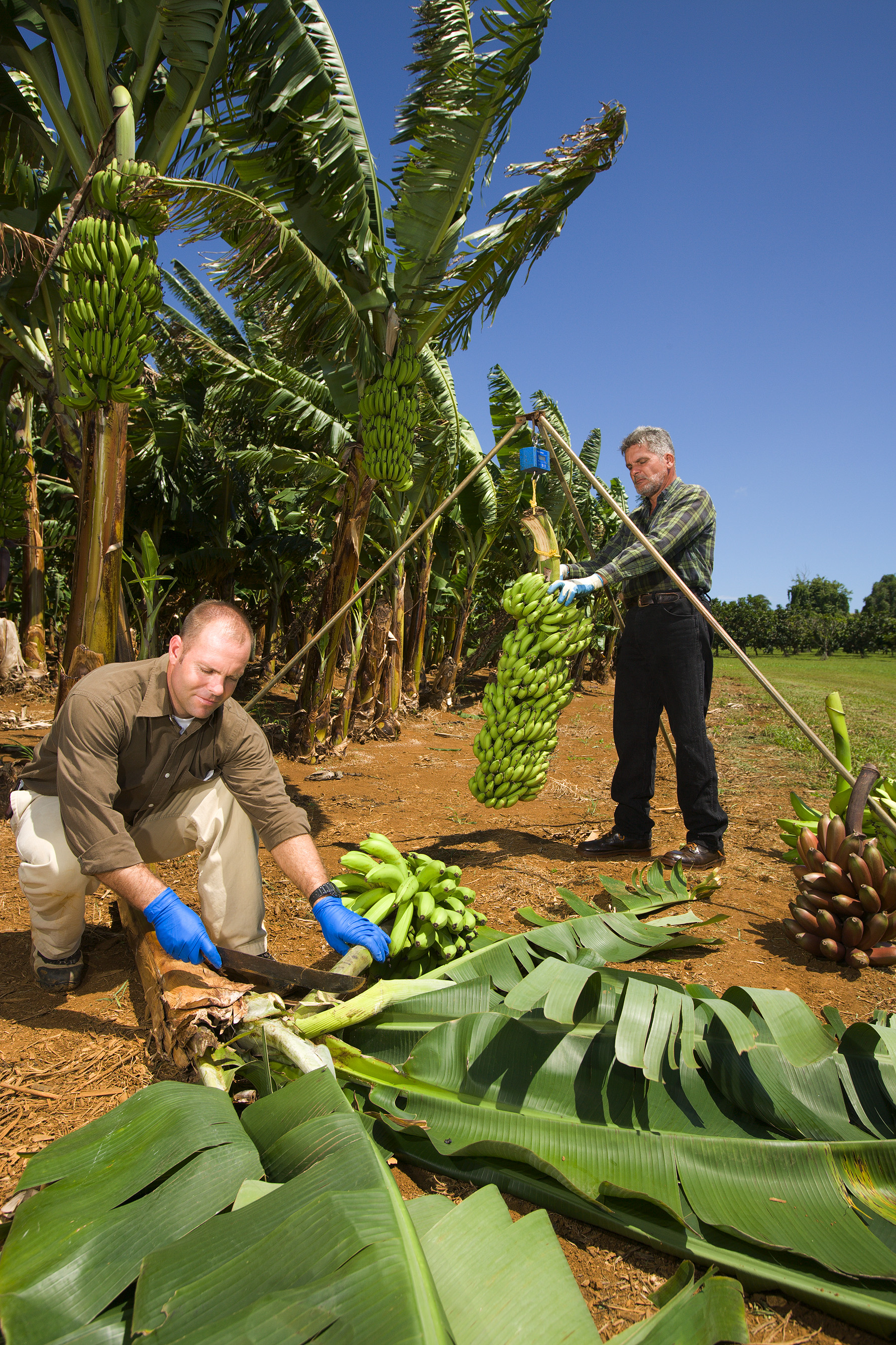 Horticulturist Brian Irish (foreground) and technician Roberto Bravo harvest and weigh banana bunches from the germplasm collection.